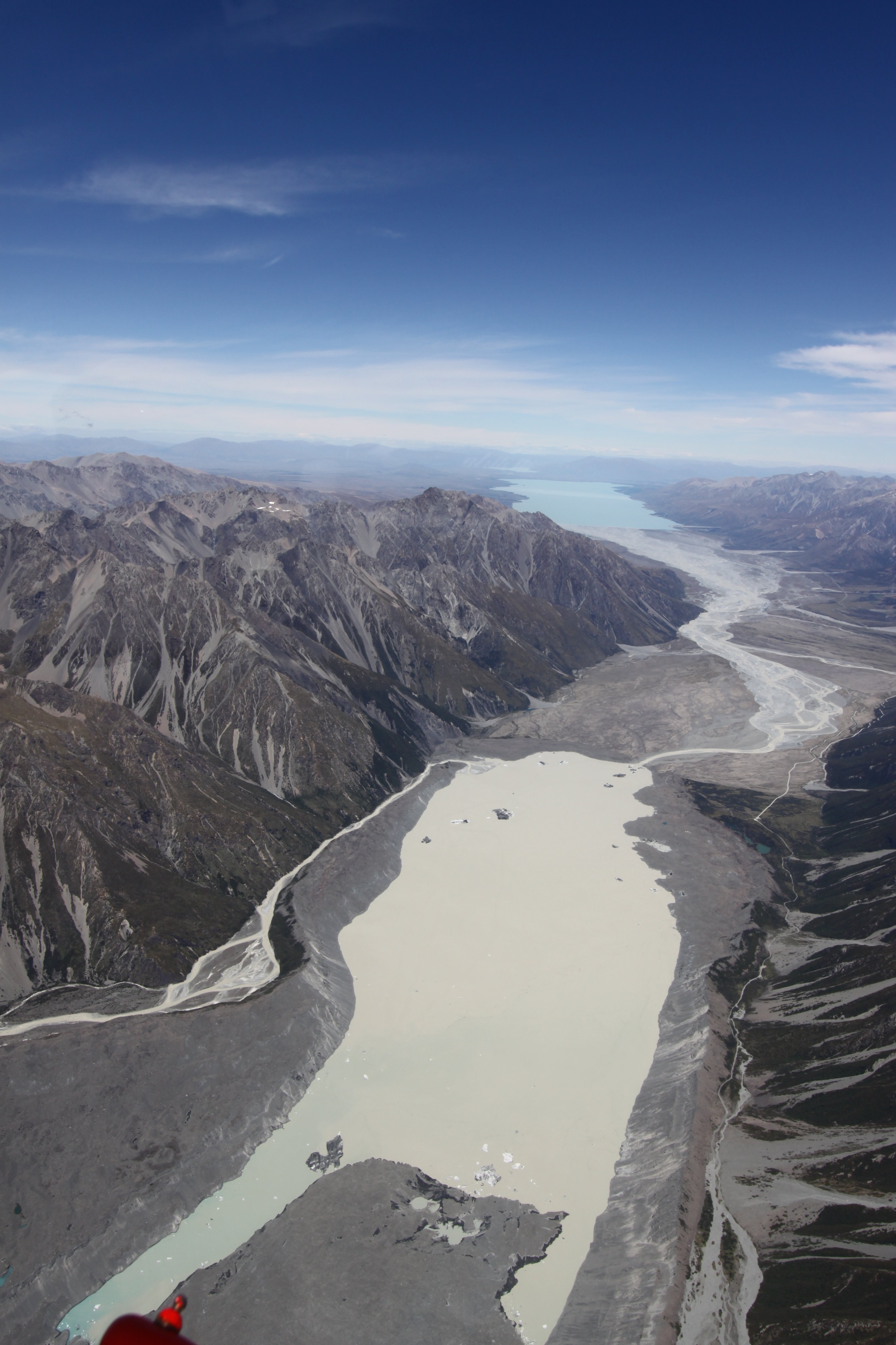 Tasman River between Tasman Lake (proglacial) and Lake Pukaki in the distance